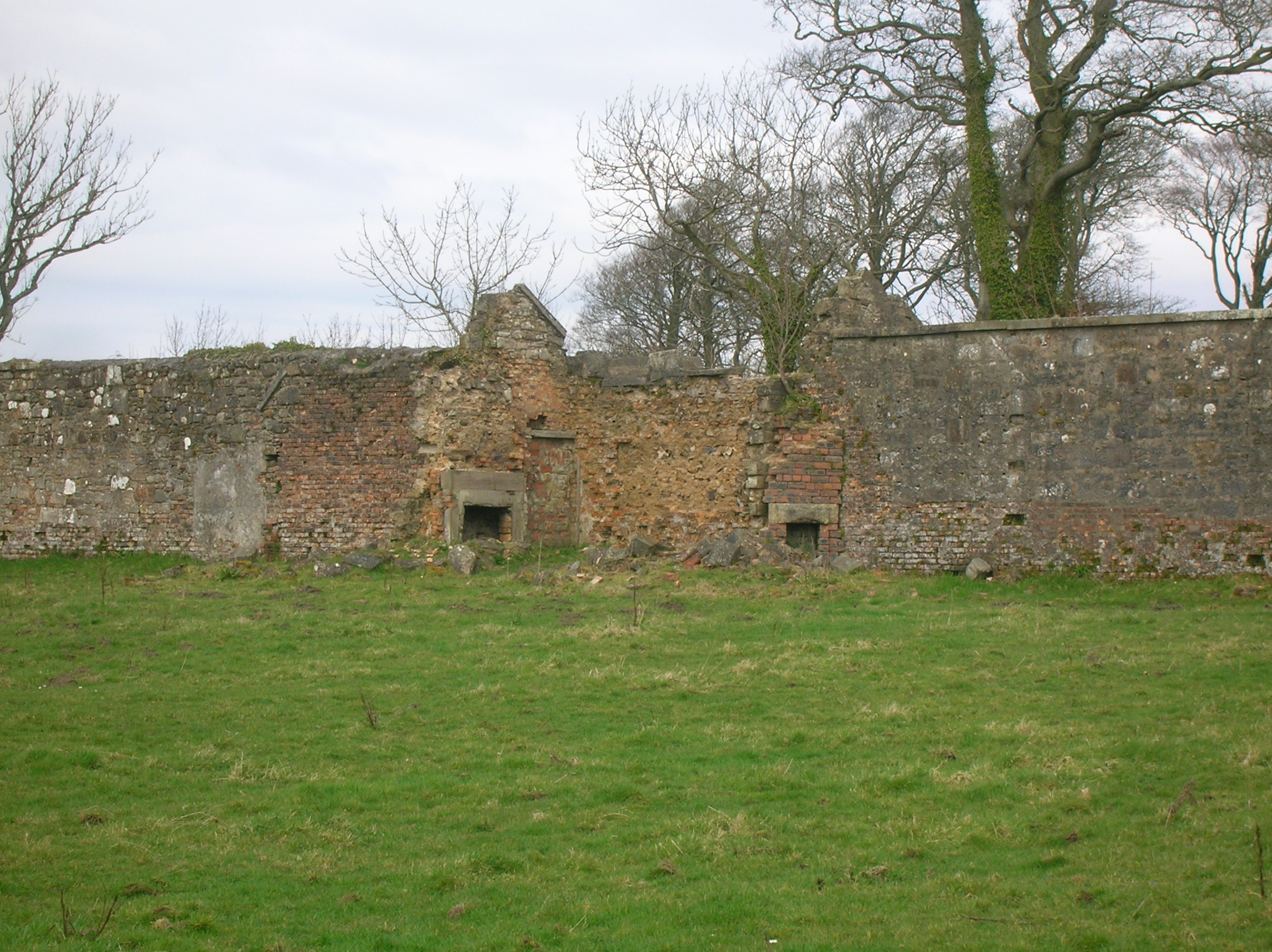 Ashgrove walled garden interior looking North. Kilwinning, North Ayrshire, Scotland.